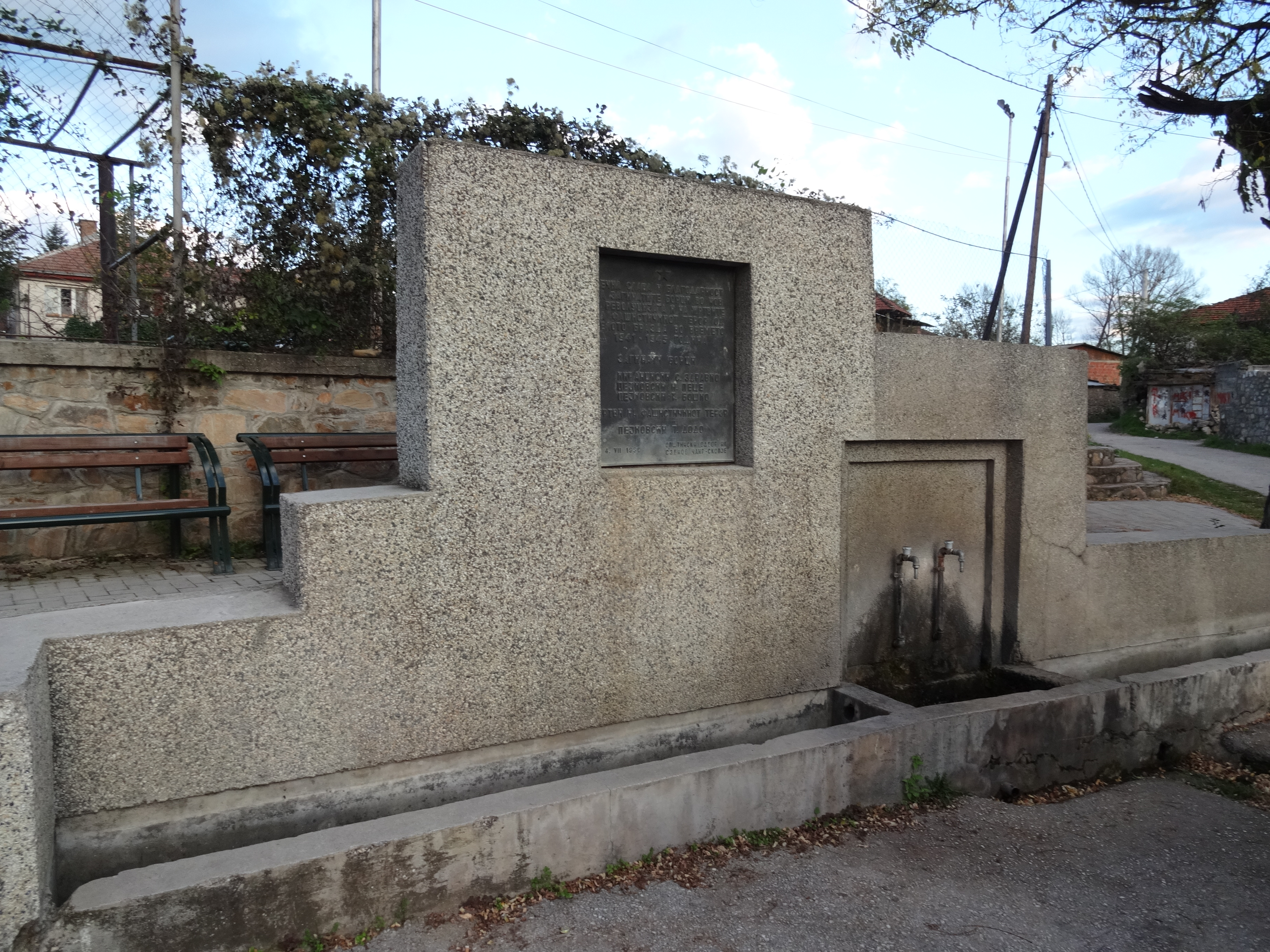 Village Brazda near Skopje, Macedonia